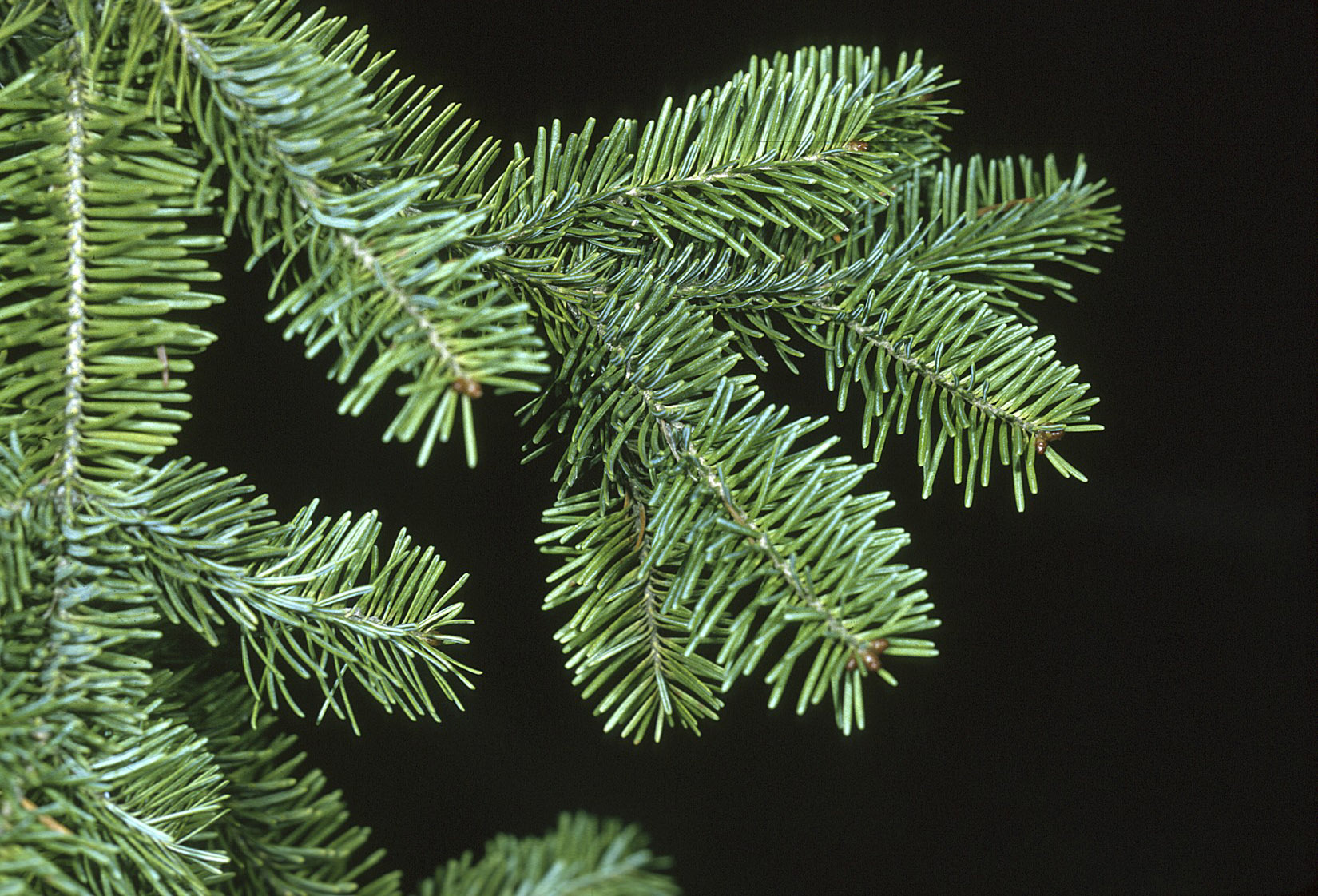 Balsam Fir. Branch.